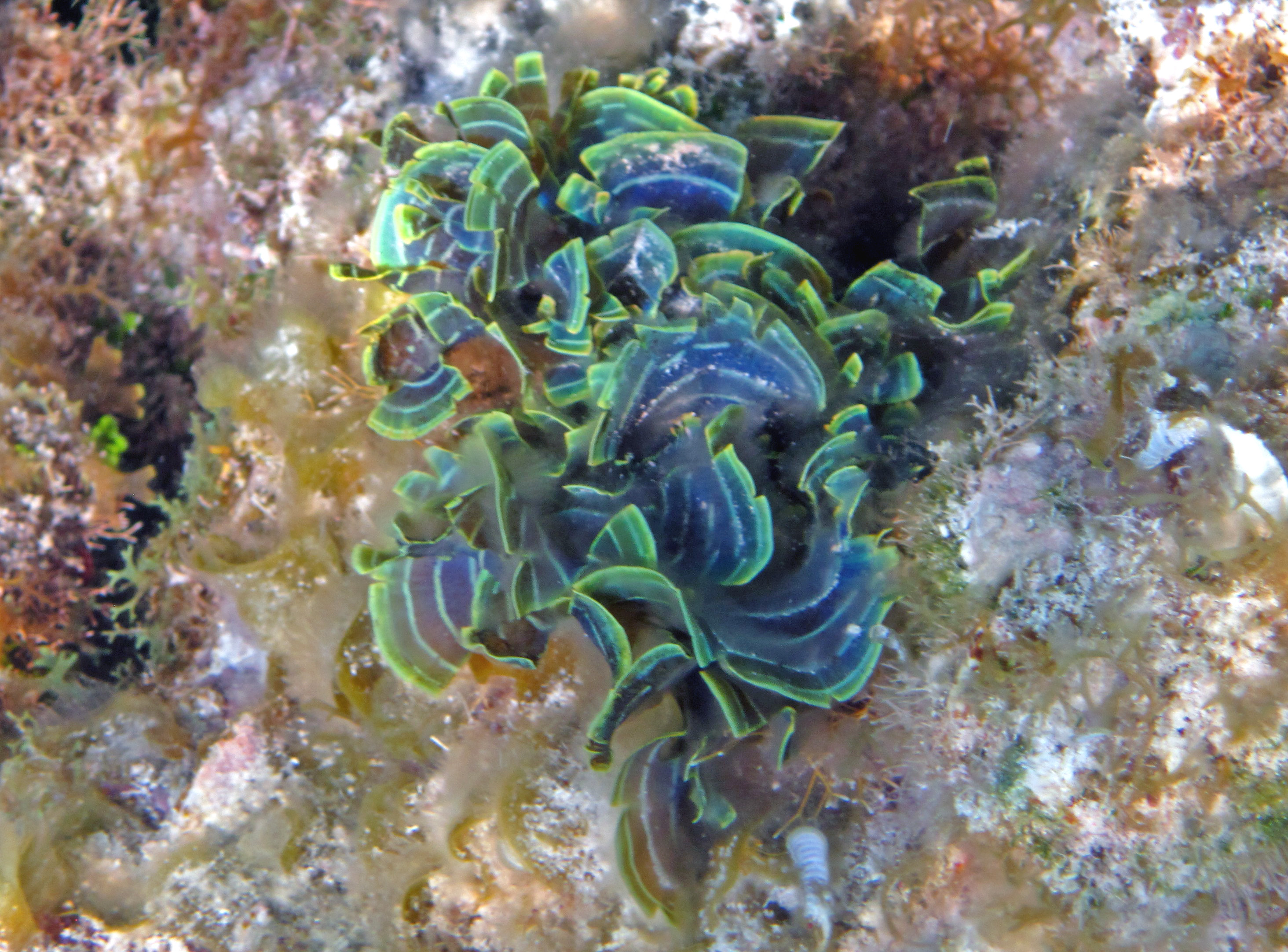 Padina boergesenii Allender & Kraft, 1983 - leafy rolled-blade algae on a patch reef. This gorgeous blue- & green-colored alga is actually a species of brown alga. This species, Padina boergesenii, varies in coloration and color pattern, but slightly iridescent bluish-greenish forms are somewhat common at French Bay patch reefs on San Salvador Island. Classification: Phaeophyta, Dictyotales, Dictyotaceae Locality: patch reef in western French Bay, southwestern San Salvador Island, eastern Bahamas